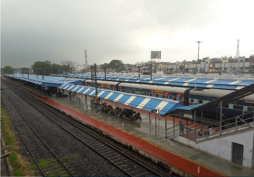 A view of Srikakulam Railway Station from Mettakivalas End